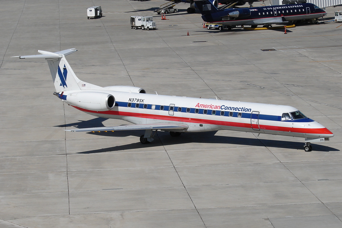 "Chautauqua 5008" arriving from ORD.